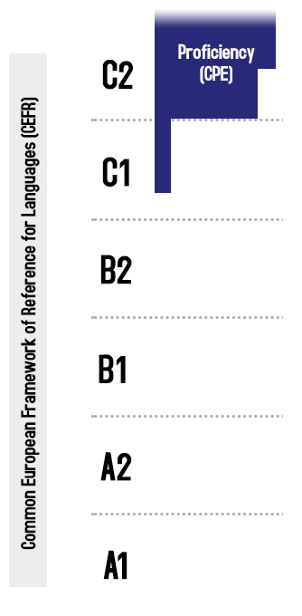 Comparison between the exam Cambridge